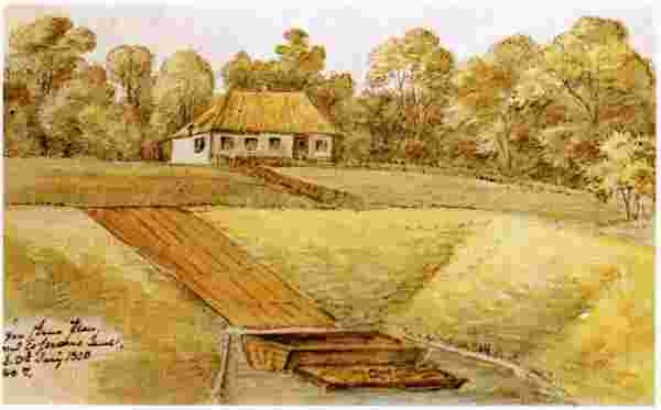 Væltningen at Esrum Canal which formerly connected Lake Esrum and Dronningmølle on the North coast of Zealand, Denmark